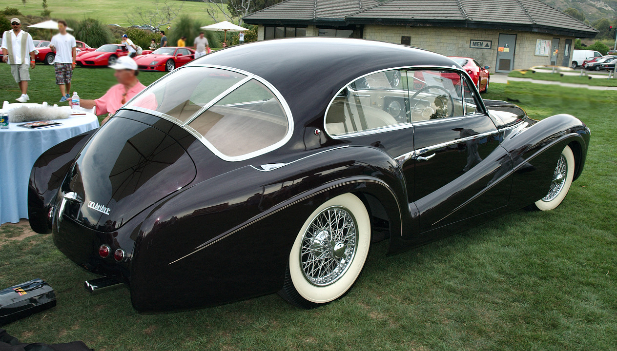 1953 Delahaye 235M Pillarless Coupé - one off body by Saoutchik - black - rvr